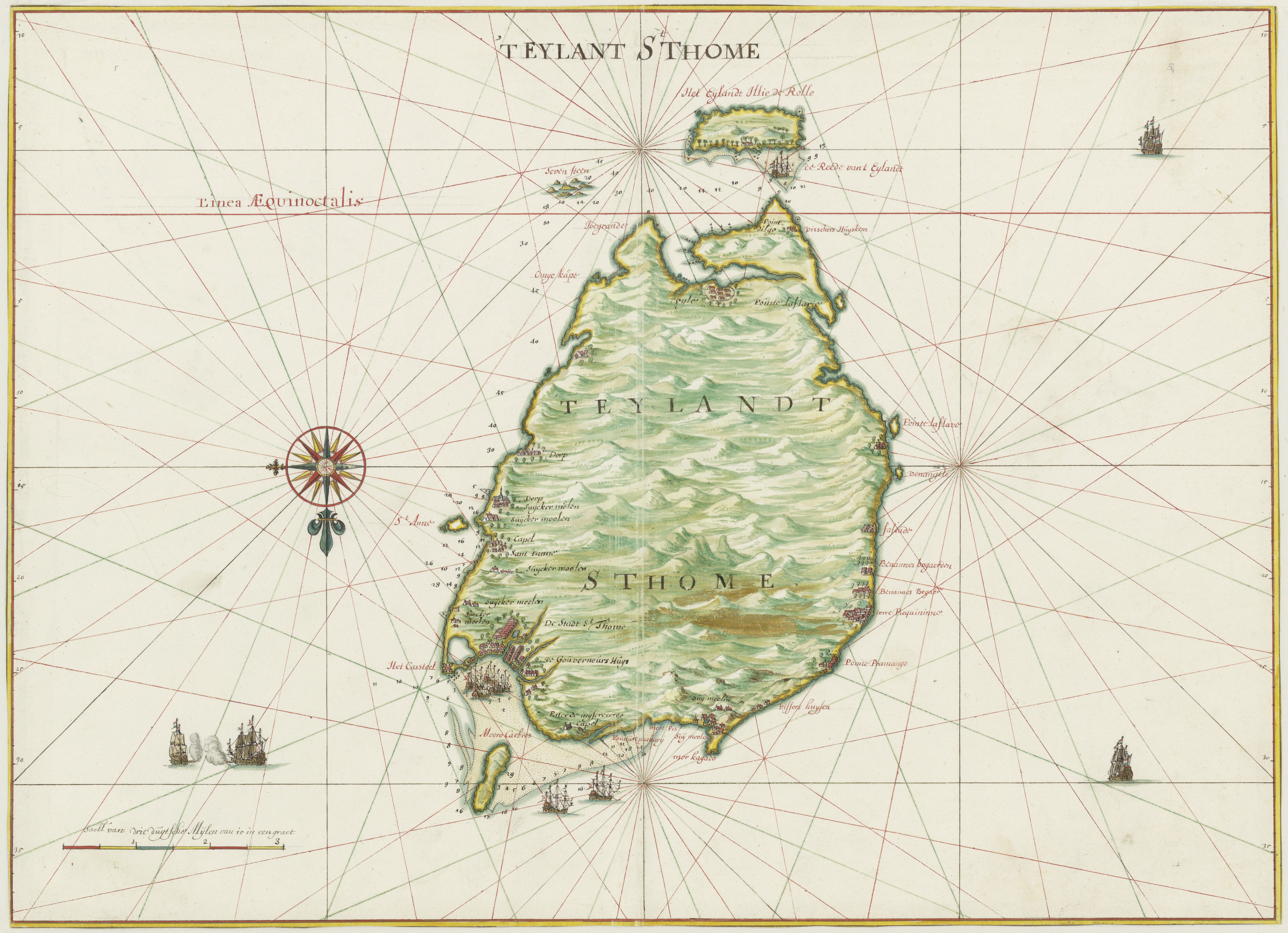 Title in the Leupe catalogue (NA): Kaart van de kusten van "'t eylant St. Thomé". Met loodingen. Map of the island of San Thomé. 't Eylant St Thome. The chart forms part of the Vingboons Atlas. Cf. Österreichische Nationalbibiothek, Vienna, inv. nr. 36:27.